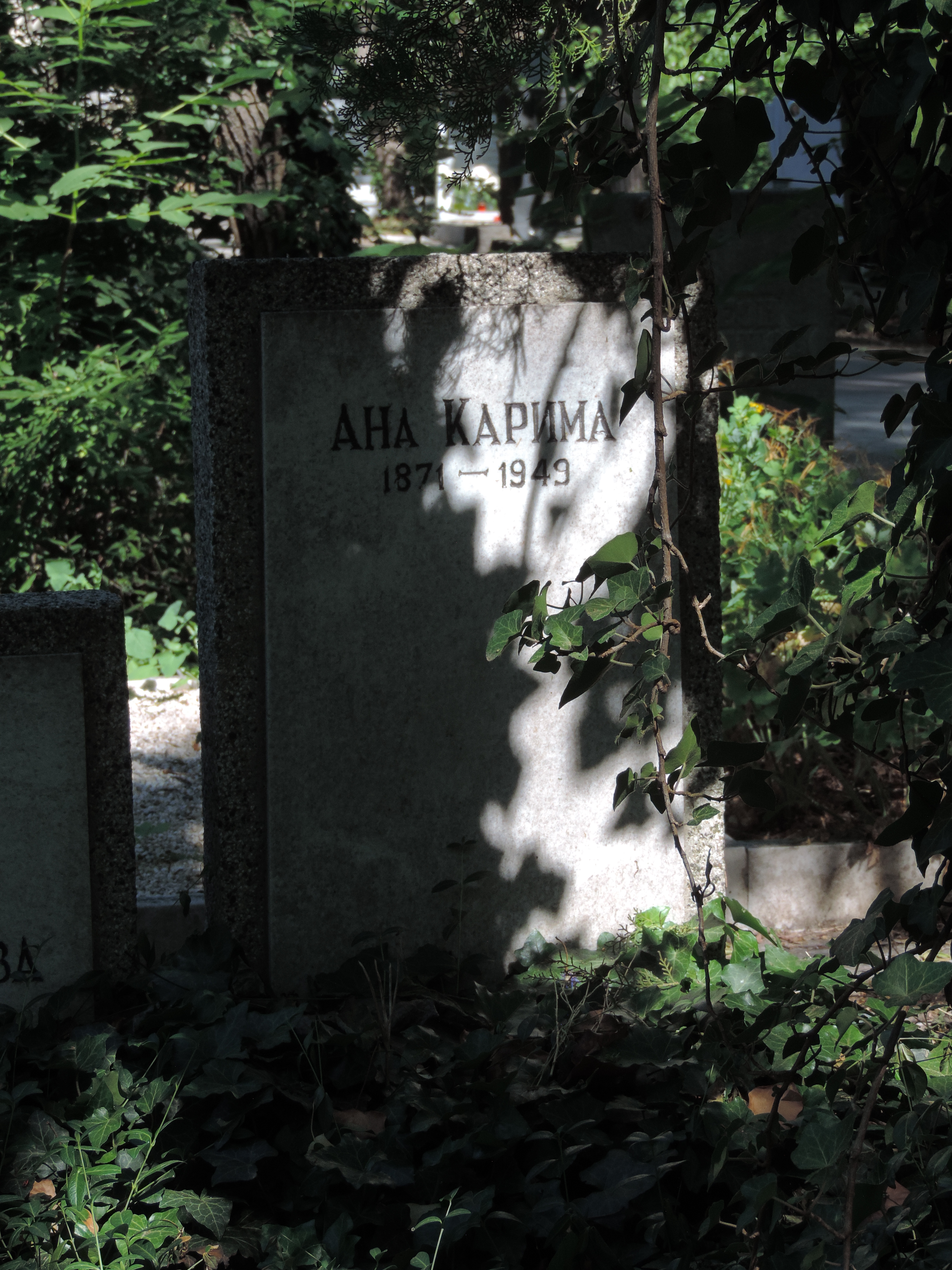 Central Sofia Cemetery